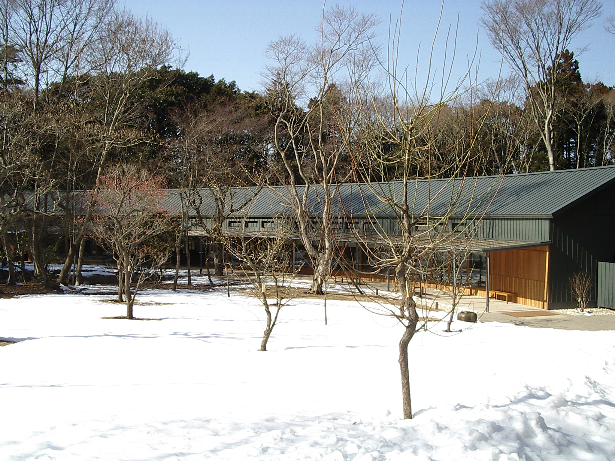 とらや工房（御殿場市） 内藤廣建築設計事務所による設計 Toraya Koubou at Gotemba, Shizuoka, Japan Designed by Naito Architect & Associates